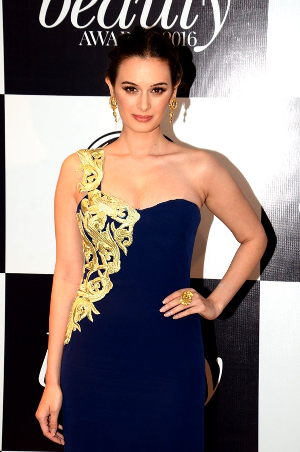 Evelyn Sharma grace 'Vogue Beauty Awards 2016' in July 28, 2016